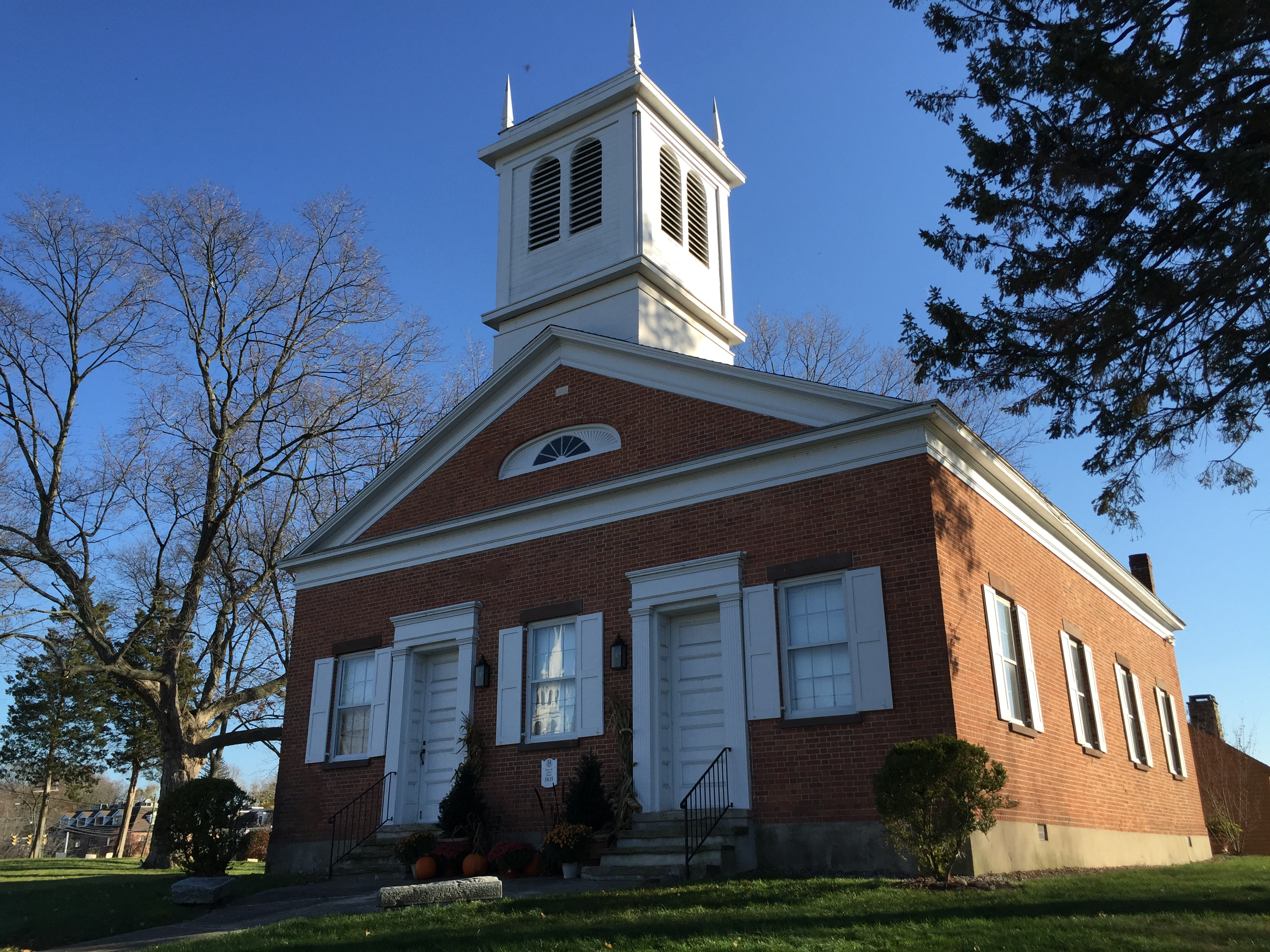 1835 Norwalk Town House in Mill Hill Historic Park in Norwalk, CT